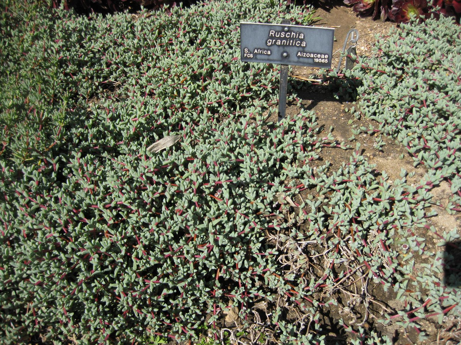 Photographed at Huntington Gardens (Los Angeles, California) in March